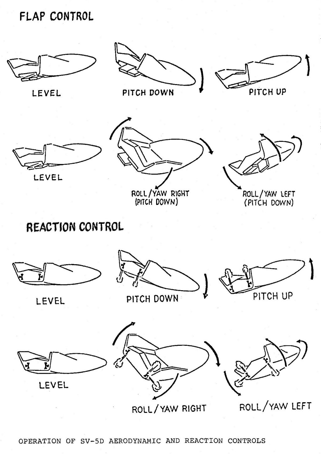 Operation of SV-5D aerodynamic and reaction controls